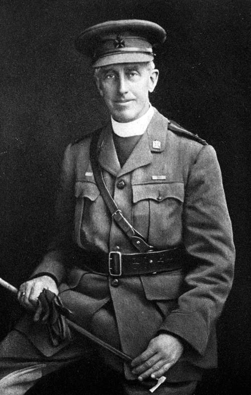 A portrait of the Rev. Canon Frederick Scott, Late Senior Chaplain, First Canadian Division, Canadian Expeditionary Force, WW I from the frontispiece of his book.